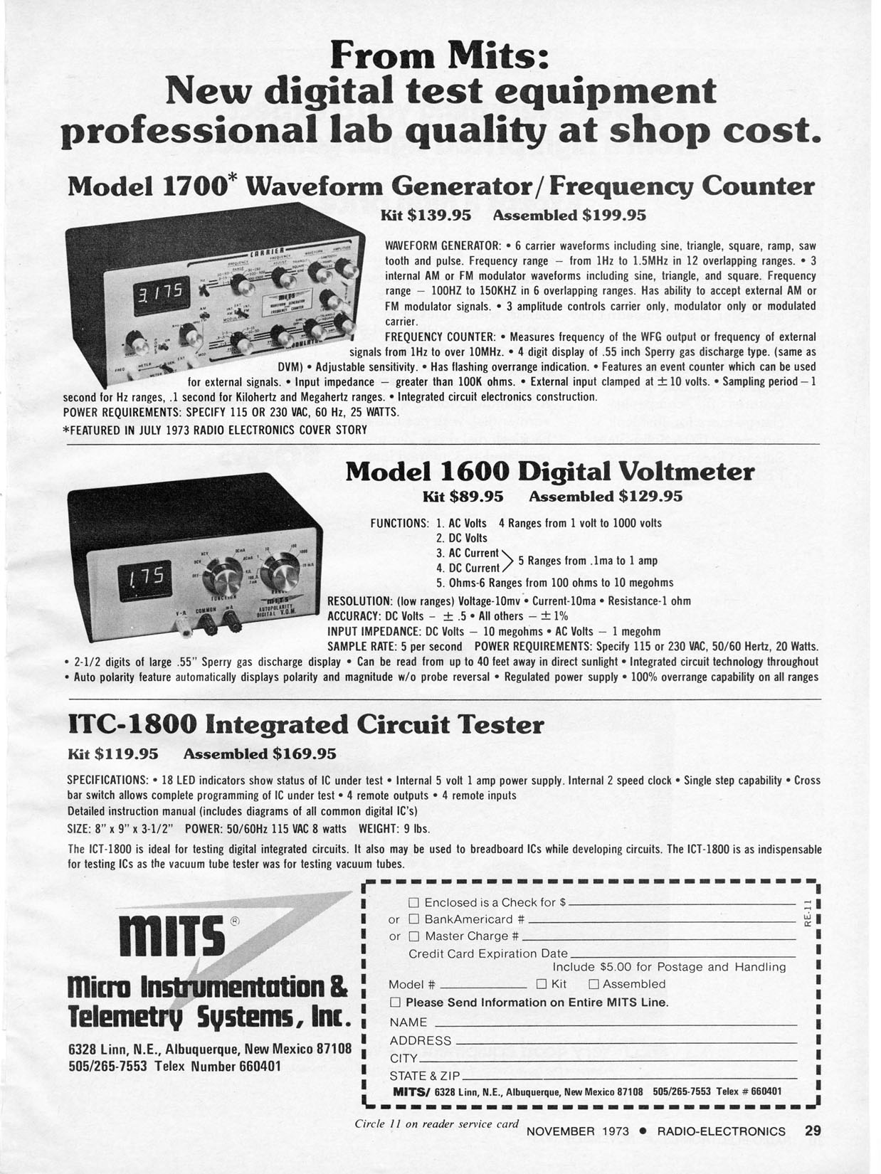 Micro Instrumentation & Telemetry Systems, Inc (MITS) advertisement for digital test equipment in 1973. This advertisement appeared in the October 1973 Popular Electronics (page 15) and November 1973 Radio-Electronics (page 29).